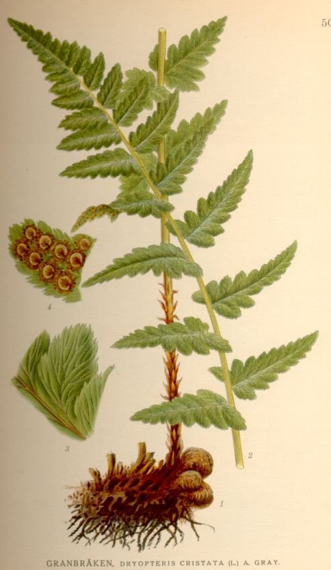 Dryopteris cristata